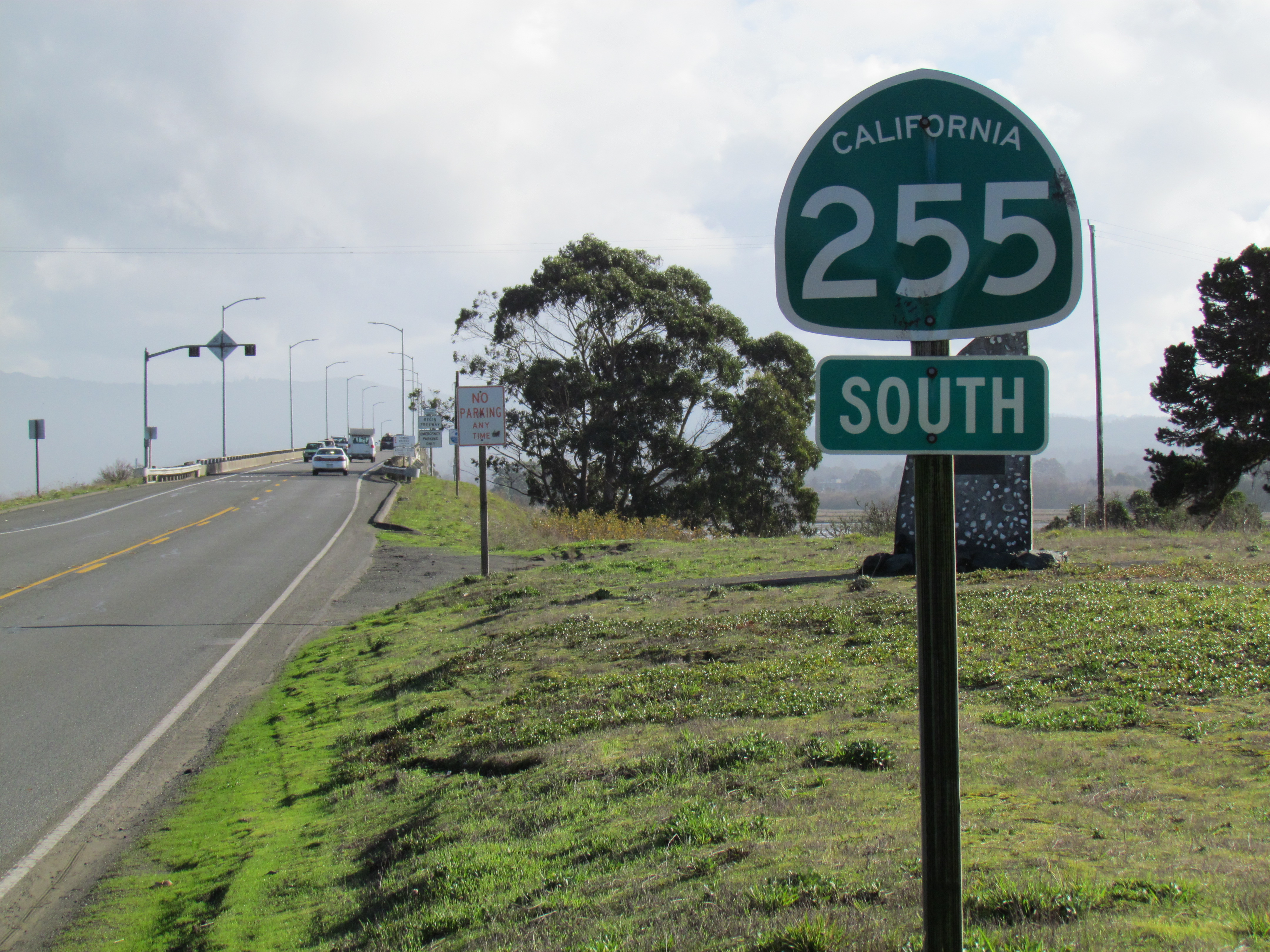 Looking East at Highway 255 bridge over Humboldt Bay. This view was taken from the Samoa peninsula looking toward Eureka, California.